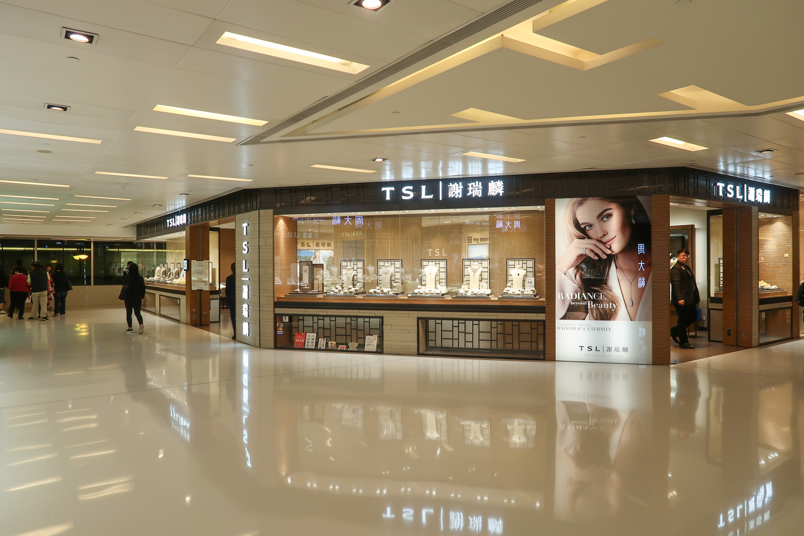 Tse Sui Luen Jewellery in New Town Plaza